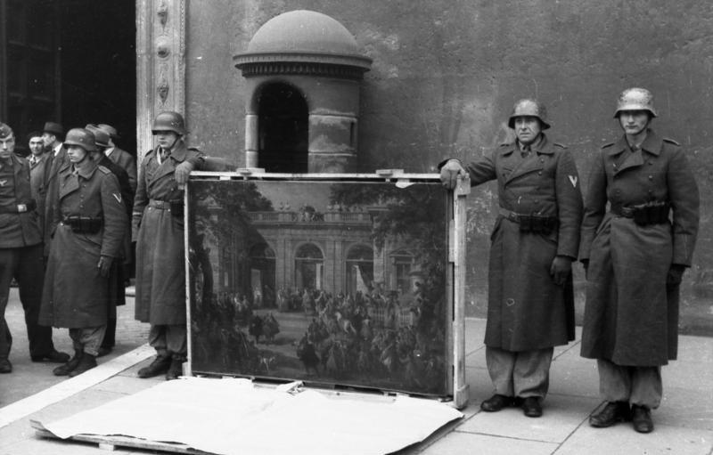 Rome, Italy, 4 January 1944. German soldiers of the Division "Hermann Göring" posing near the main entrance of Palazzo Venezia showing a picture taken from the National Museum of Naples Picture Gallery (today at the Museo di Capodimonte) before the city liberation, during a propaganda ceremony aimed to prove that the artworks are being "devolved" to the RSI. (Source: Silvio Bertoldi, Salò, una storia per immagini Arnoldo Mondadori Editore, 1992, p. 57). The picture shown is by Giovanni Paolo Pannini and represents "Carlo III di Borbone visiting the Pope Benedetto XIV in the coffee-house of the Quirinale, Rome" (Museo di Capodimonte inv. Q 205).